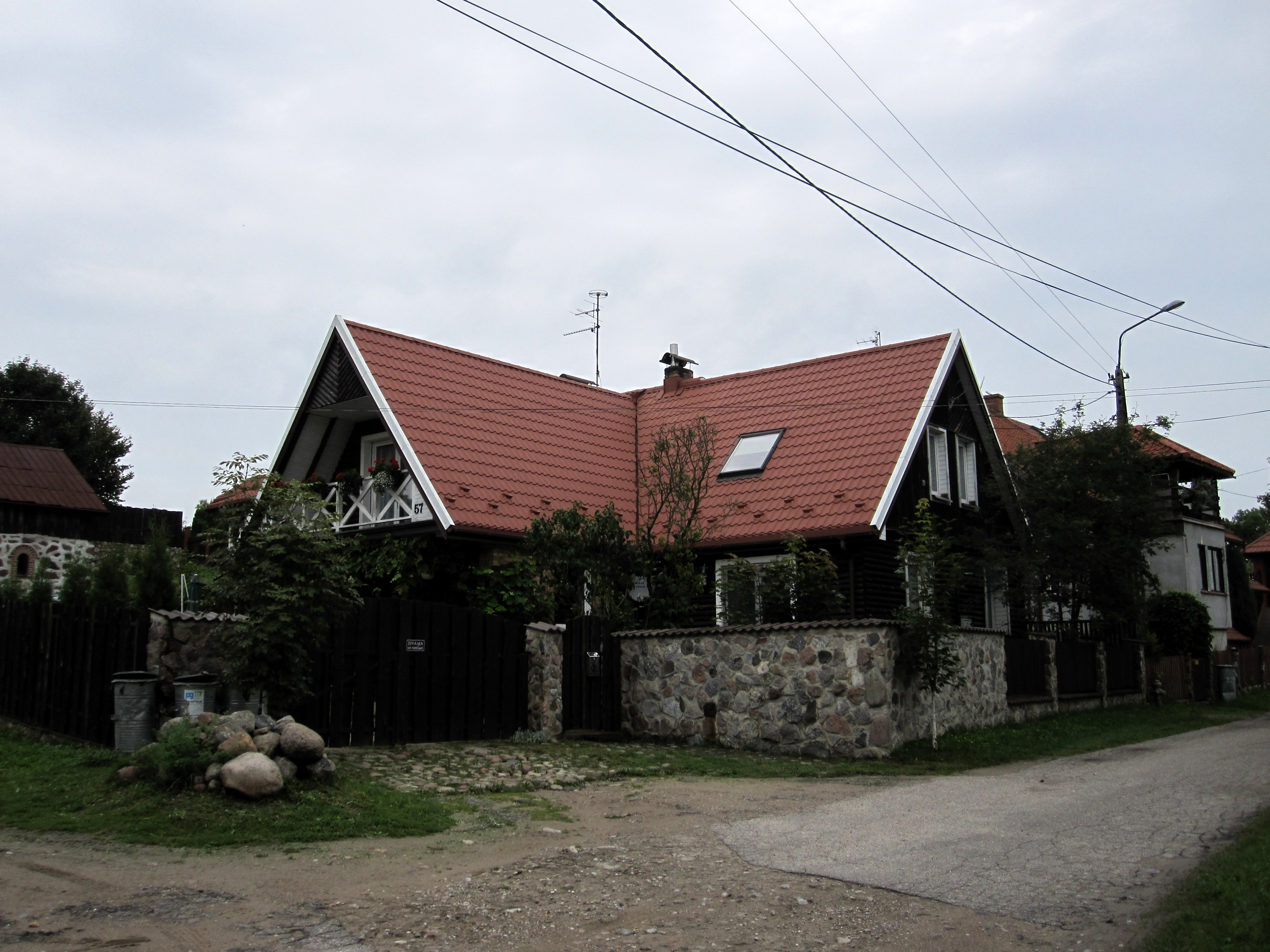 Jedwabno - building No 57 on 1 Maja street